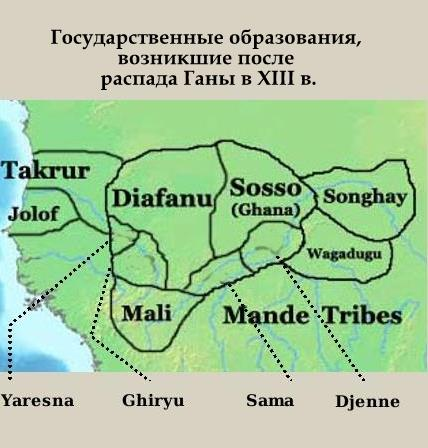 Map of the successor states of the Ghana Empire, on the upper Niger river valley, West Africa, circa 1200 Common Era. These outlines are approximate, and should not sugest modern states with fixed borders. States in this era were centered around cities and strong places, with varriations of influence radiating out from these points. C. 1200 on the eve of the rise of the Mali Empire, usually dated in the 1240s CE.